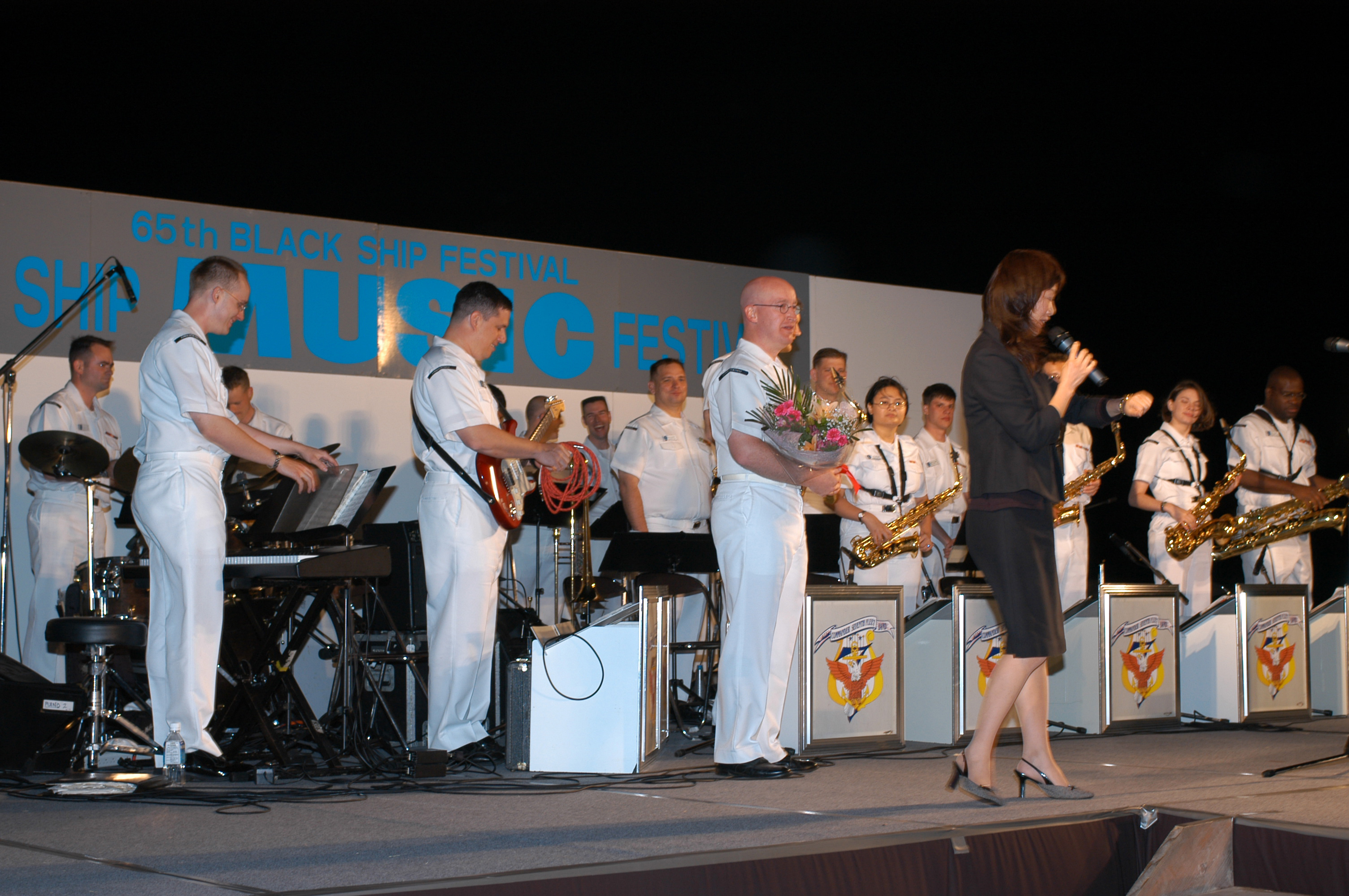 Shimoda, Japan (May 14, 2004) – Sailors assigned to the Seventh Fleet Band’s big band, Far East Edition, receive recognition from a Shimoda Black Ship Festival representative after a sunset concert at Madogahama Beach. The festival promotes the theme of peaceful relations between the Japanese and American people, and commemorates the 1854 landing of Commodore Matthew Perry and the signing of the Japanese-American treaty of trade and amity at Shimoda. This year's festival commemorates the 150th anniversary of that landing. U.S. Navy photo by Journalist 2nd Class Patrick Dille (RELEASED)